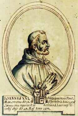 Pen drawing of Pope John XXI